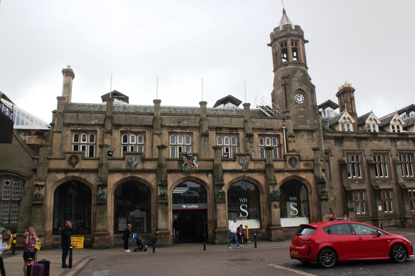 The entrance to the railway station at Carlisle is the middle of five arches, with the ticket office on the left and W H Smith's bookstall on the right.